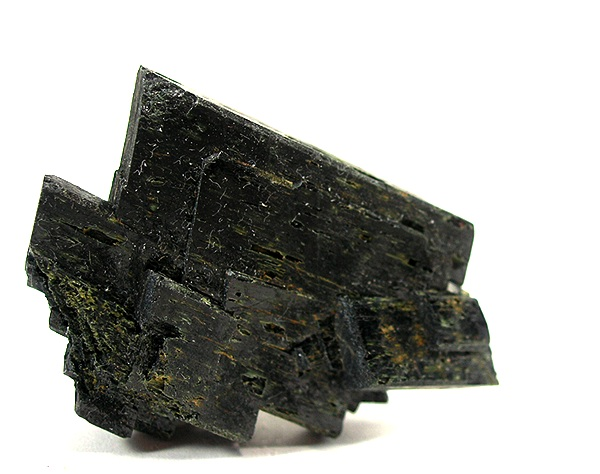 Augite Locality: Skardu District, Baltistan, Northern Areas, Pakistan (Locality at ) Size: miniature, 5 x 3.1 x 1.4 cm Augite var. Fassaite Fassaite is a rare Augite with a low iron content, and the result is a crystal of augite that looks sharp and lustrous like hedenbergite! This is a superb floater, complete all around na dpristine. As elegant as it gets for the species...